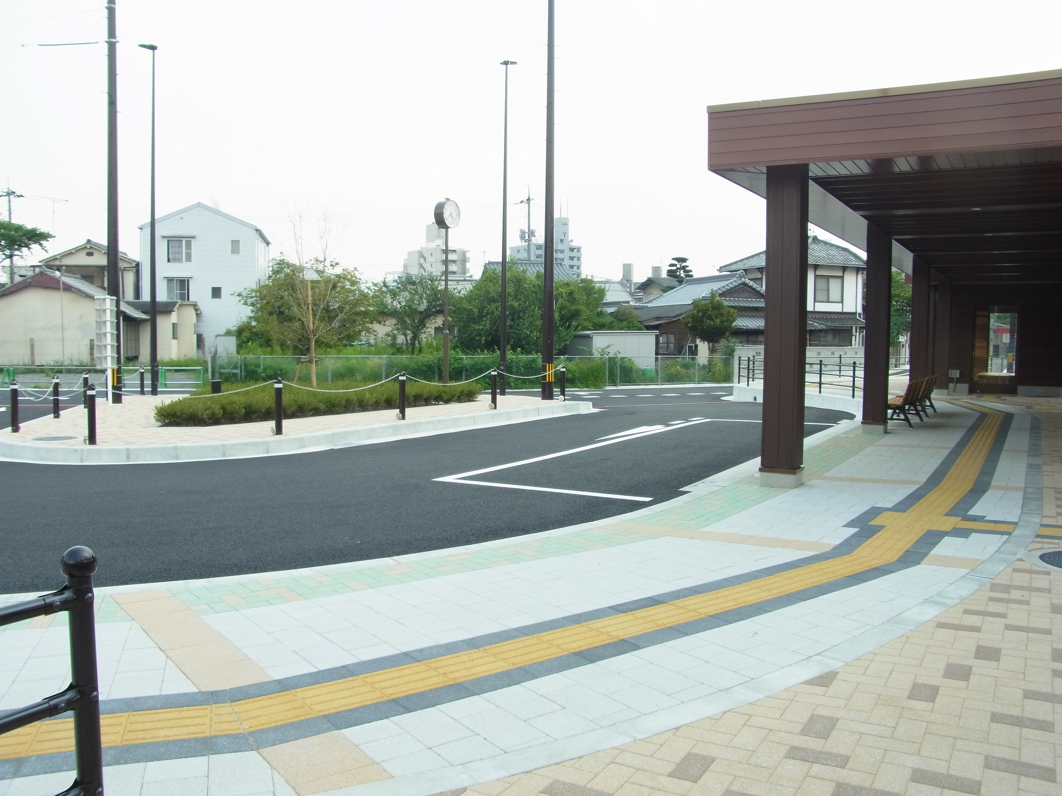 Station square at Hiroden-hatsukaichi Sttaion south side